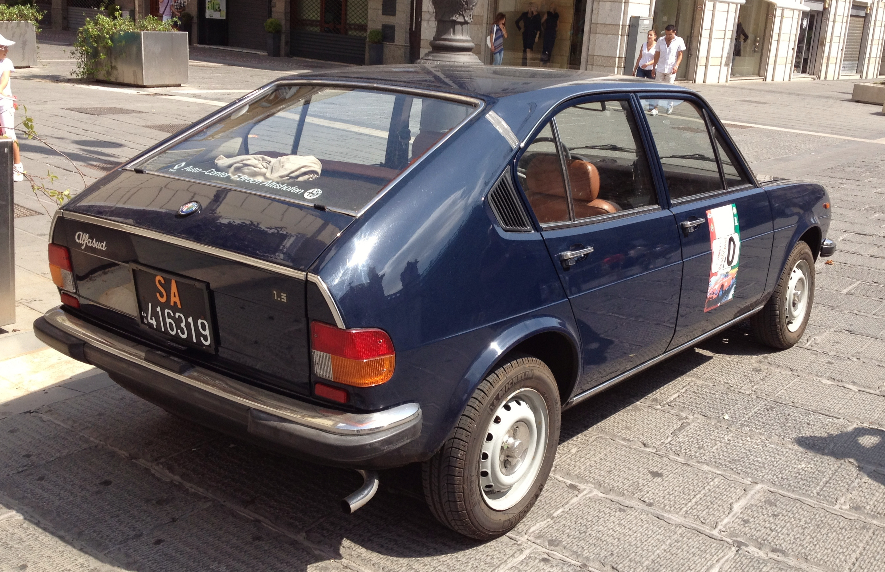 Alfa Romeo Alfasud 1.3 4door rear (title is wrong - this is not a 5door!)